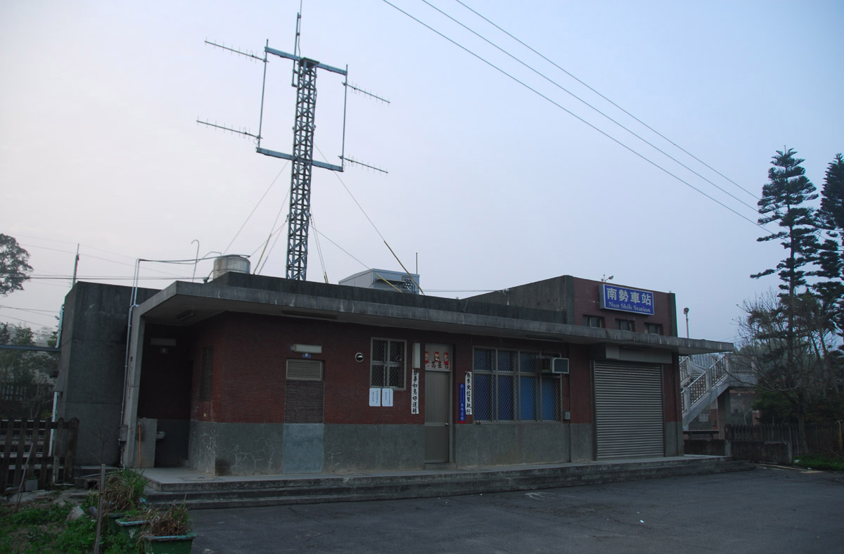 Nanshih Station.